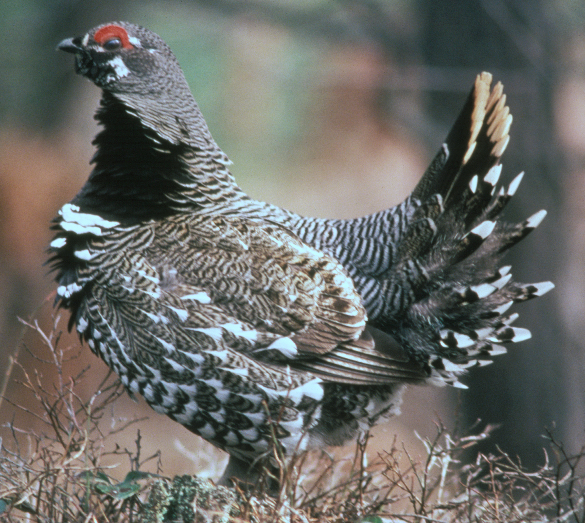 Spruce Grouse Falcipennis canadensis, male